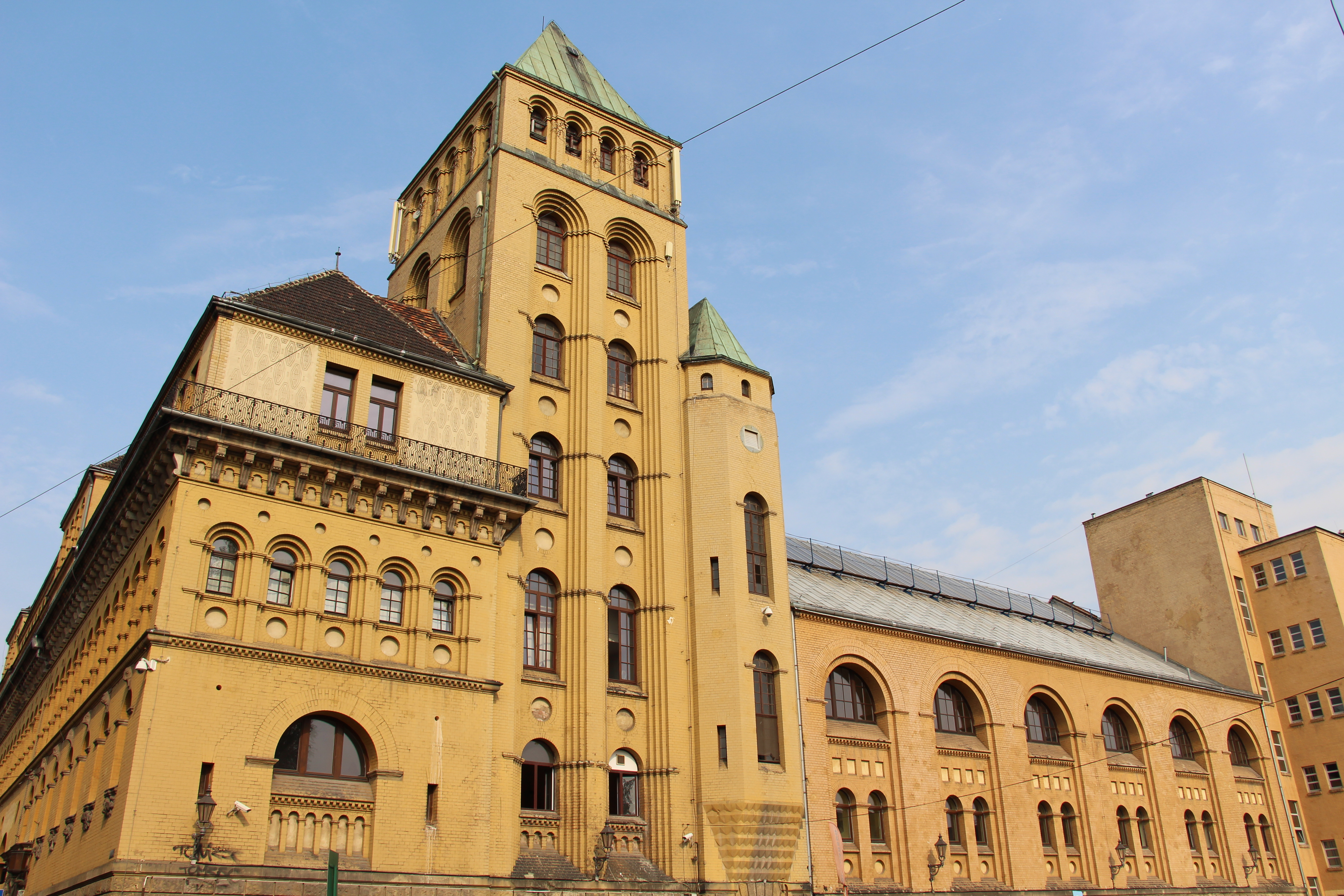 Teatralna Municipal Bath - former Breslauer Hallenschwimmbad - is a complex of buildings and facilities equipped with swimming pools and baths, and other devices for hydrotherapy and spas. Arch. Wilhelm Werdelmann 1895-97. Extended and remodelled in 1907, and in 1925-27